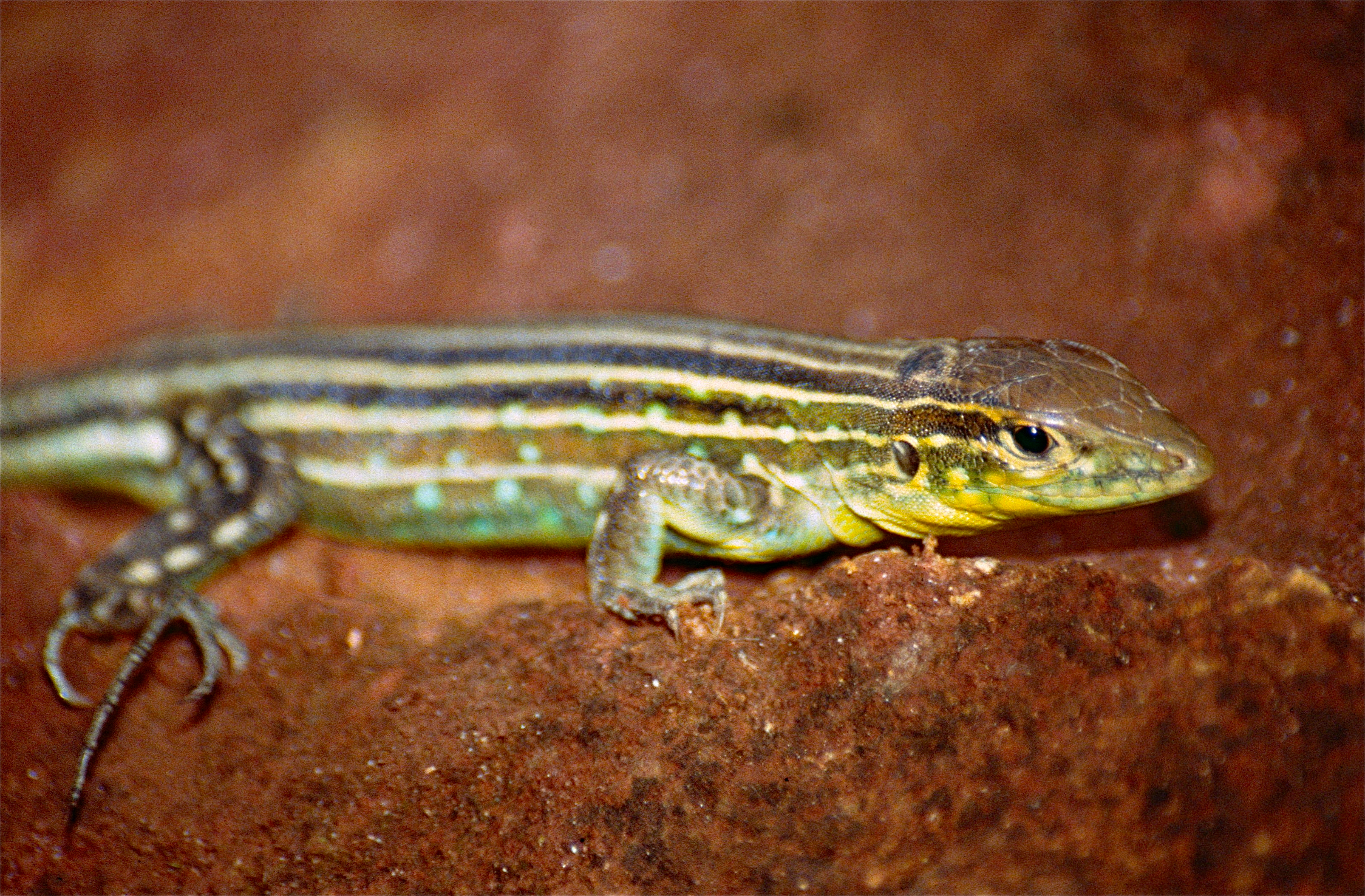 Sinnamary, Guyane, FRANCE Scanned Slide from 1998